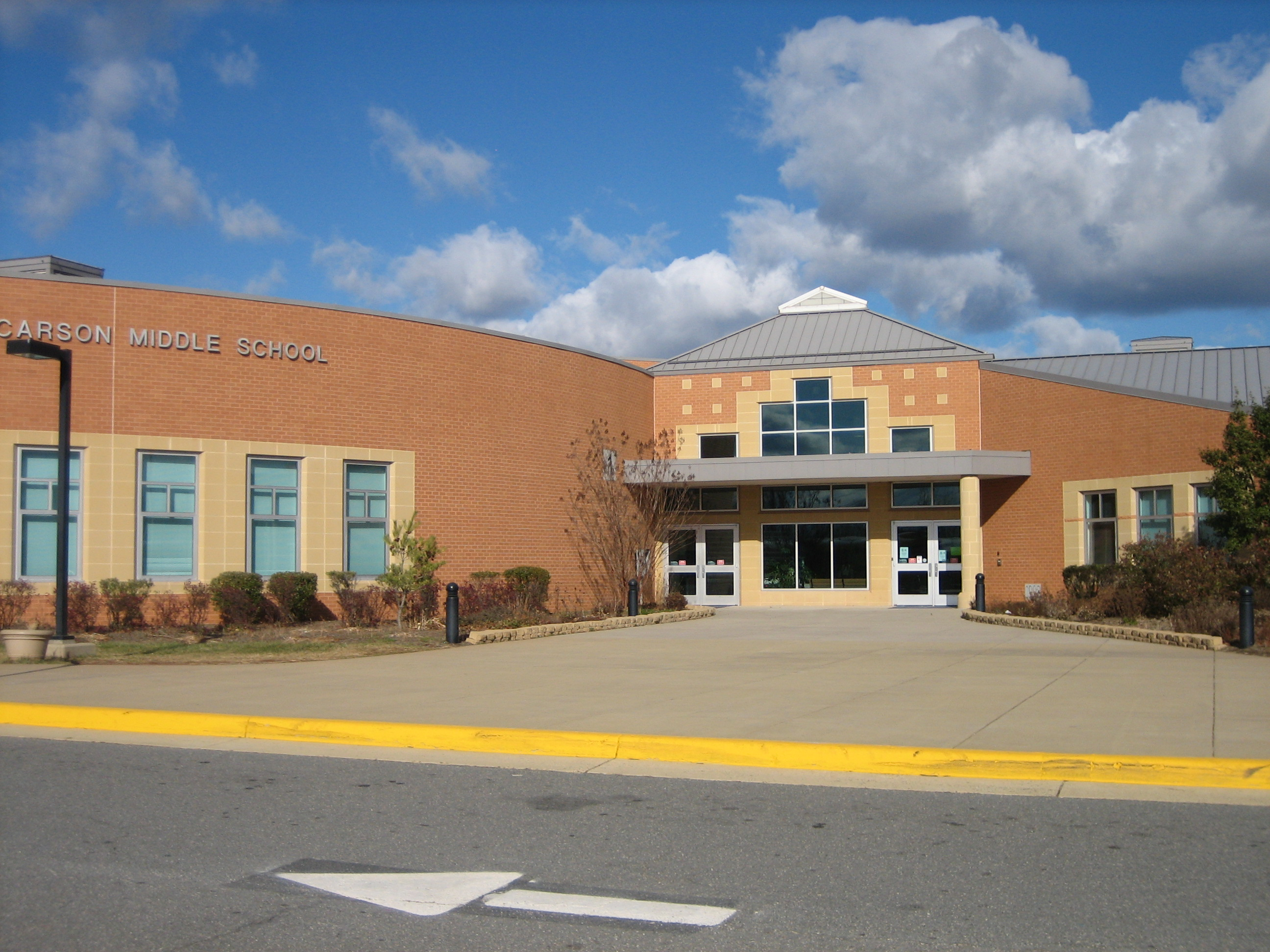 Another, alternative image of the main entrance of Rachel Carson Middle School.